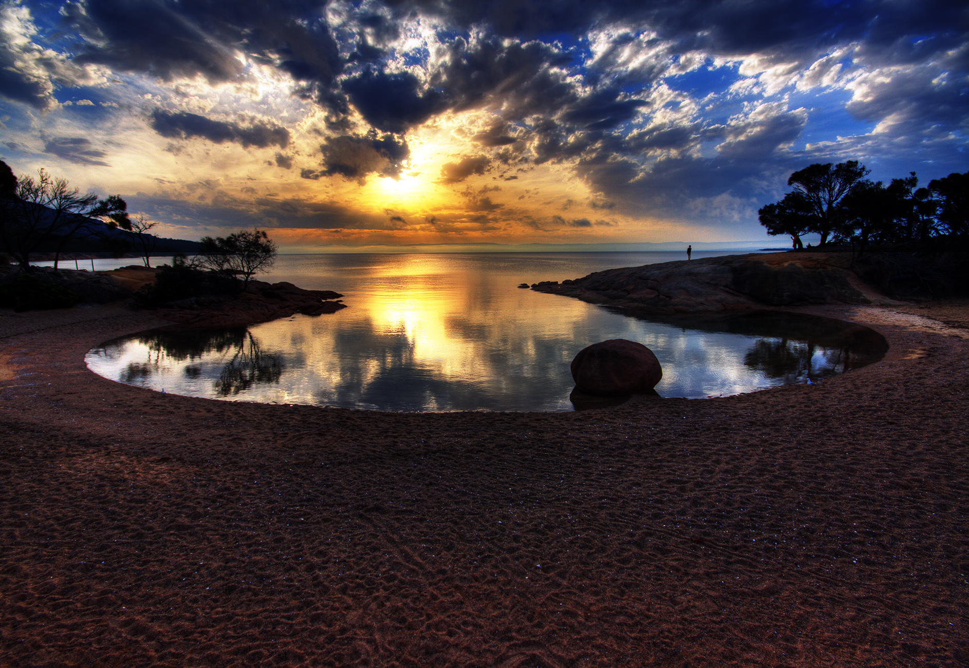 Honeymoon Bay, Freycinet Peninsula, Tasmania, Australia Camera data Camera Canon EOS 400D Lens Sigma 10-20mm F4-5.6 EX DC HSM Focal length 10 mm Aperture f/10 Exposure time 1/8, 1/30, 1/120 s Sensivity ISO 100